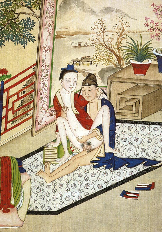 End of the Ch'ing period